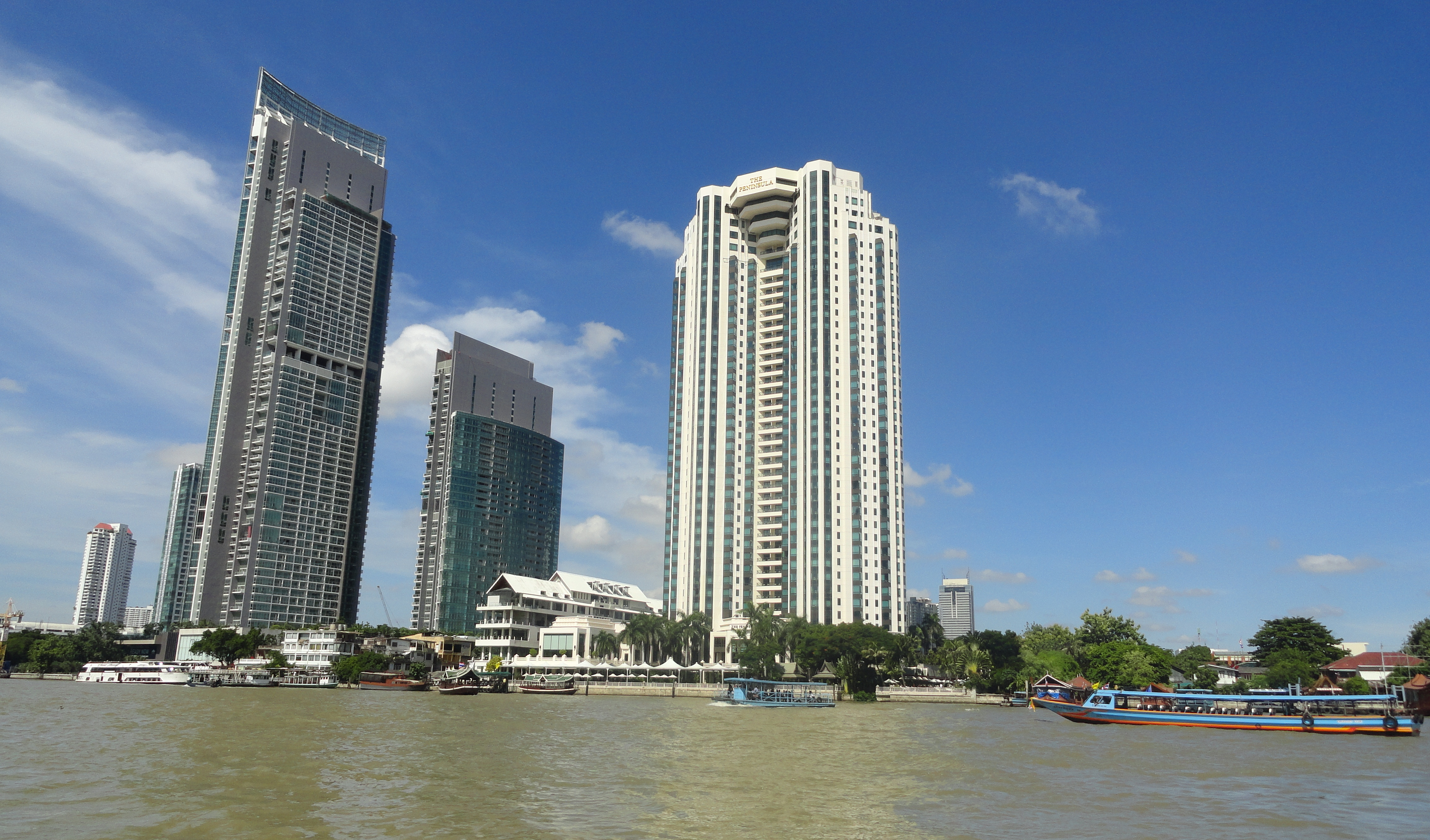 Chao Phraya River, the Peninsula Hotel and The River Luxury Condo in Bangkok. This is the Thonburi side of the river.